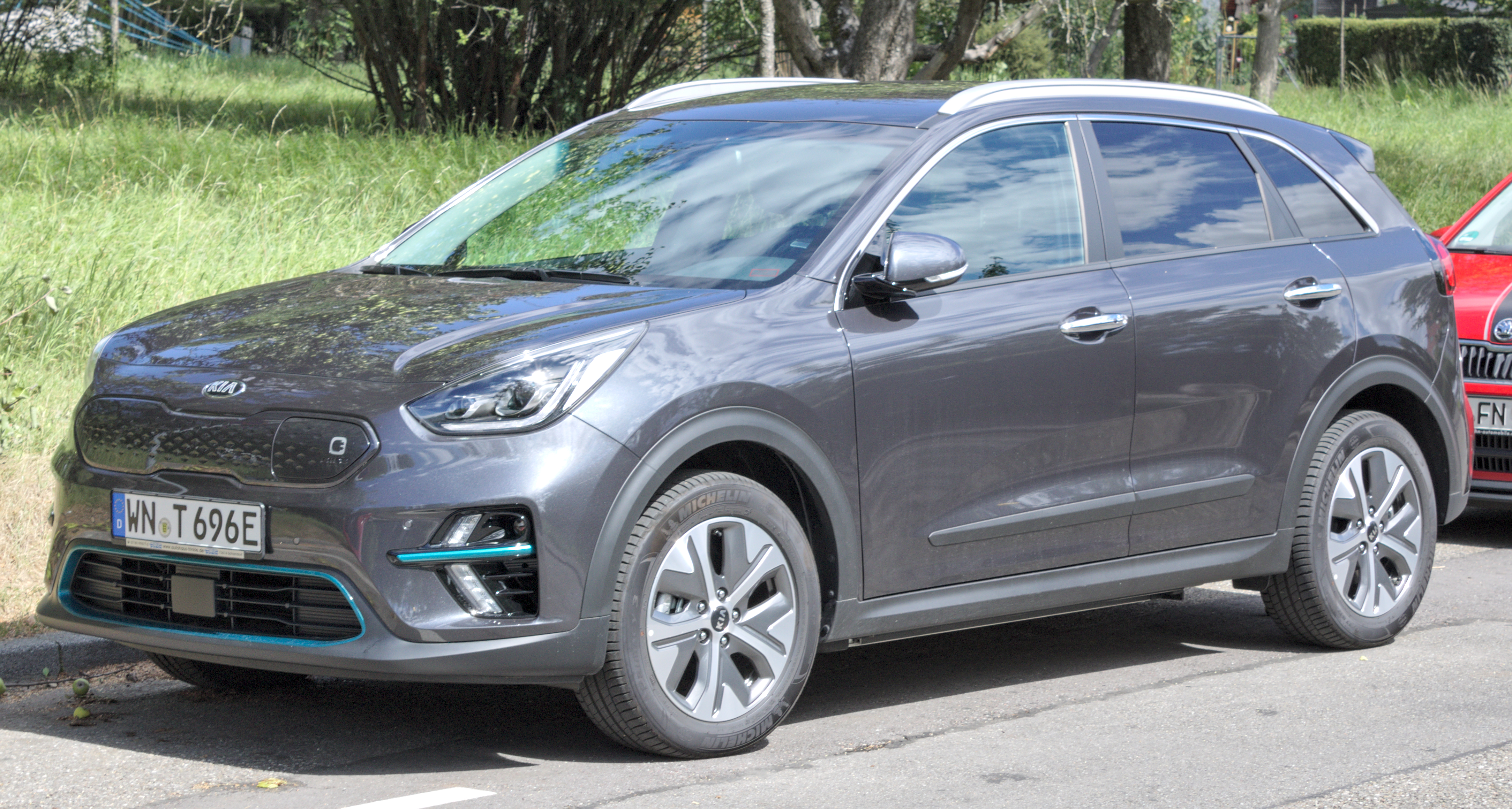 Kia_Niro_EV in Stuttgart-Vaihingen